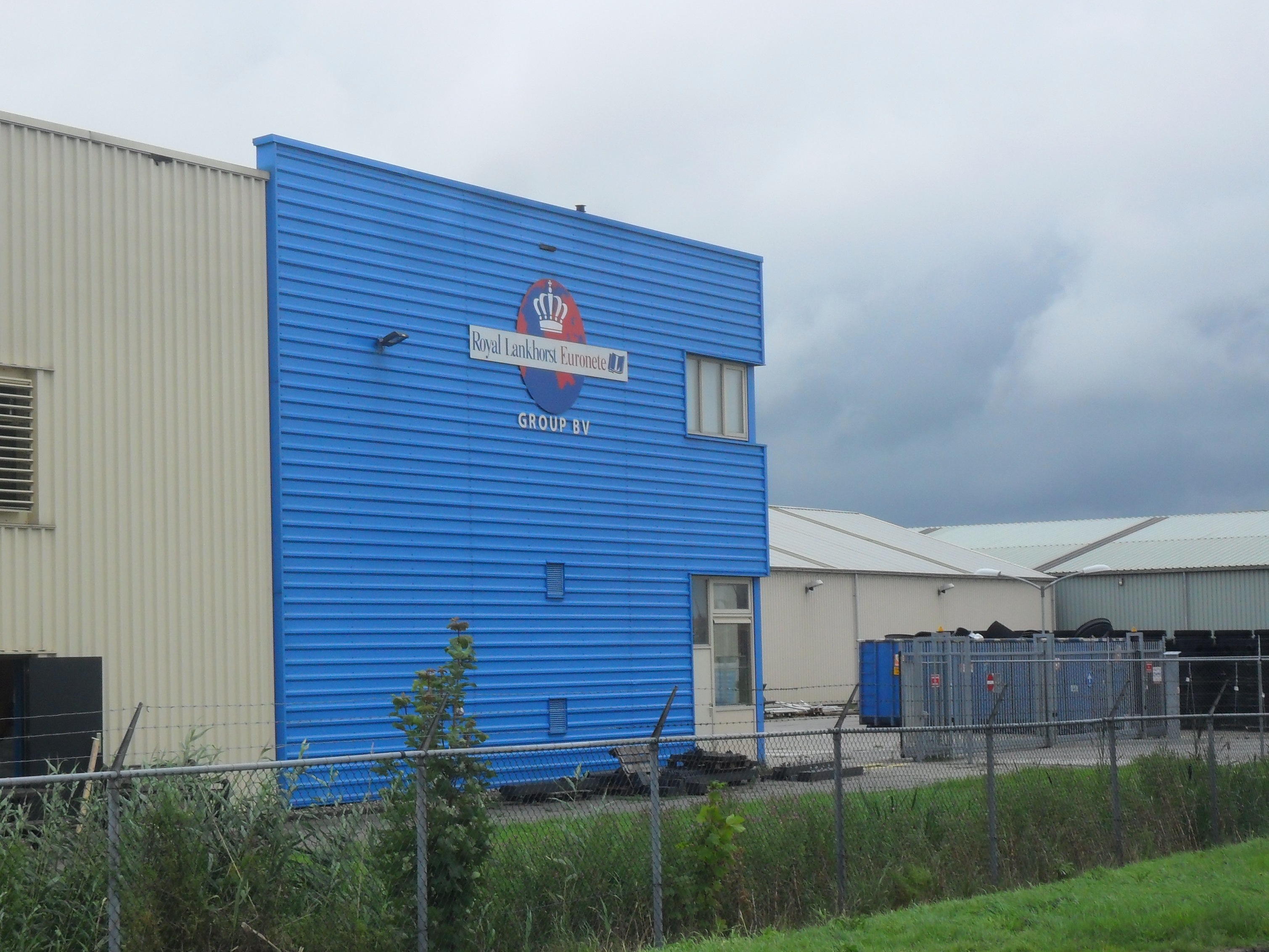 Royal Lankhorst Euronete Group BV in Sneek.